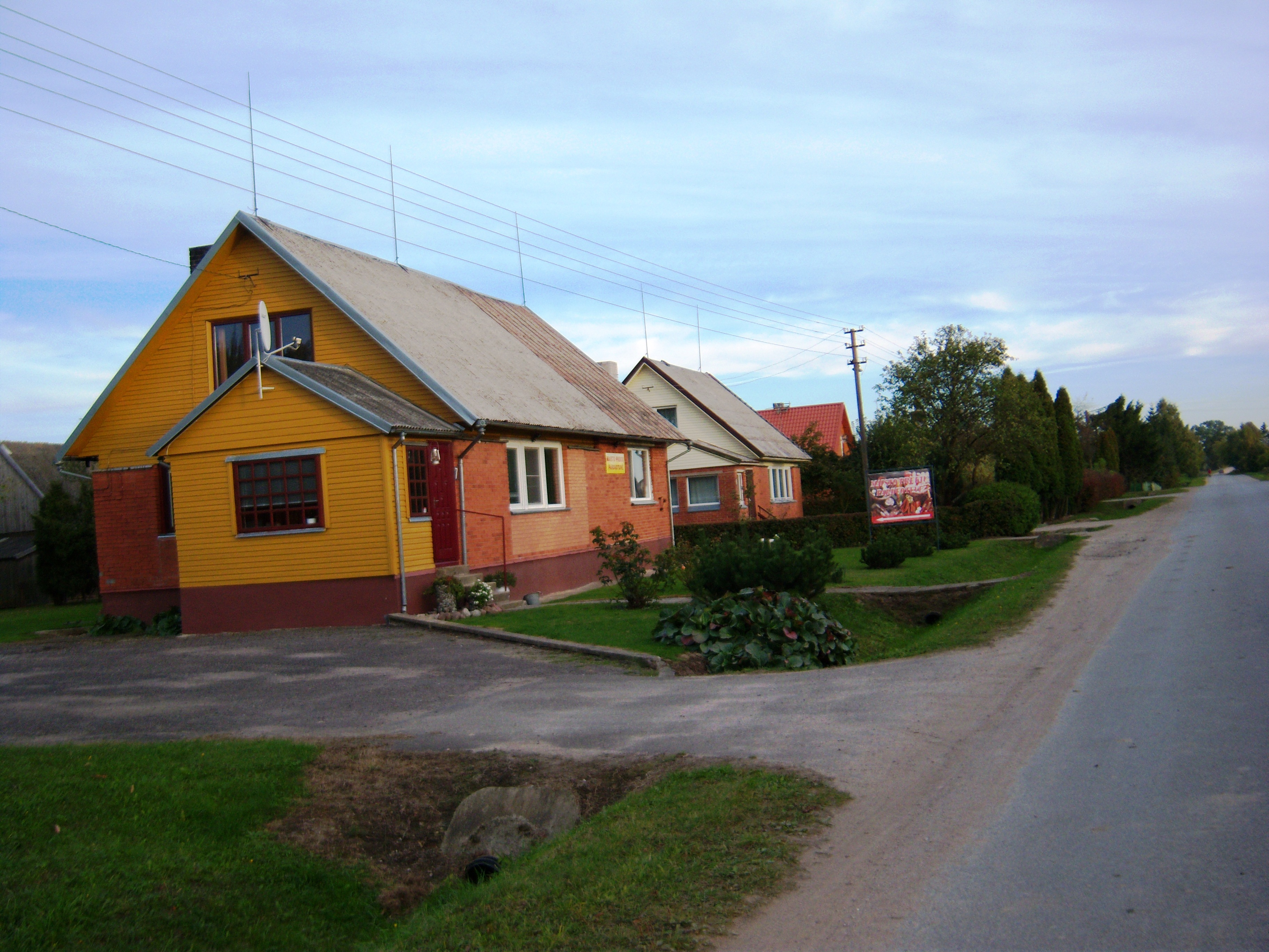 Klampučiai, Vilkaviškis District, Lithuania